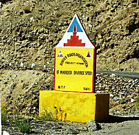 I took this photo on a trip to Ladakh in 2010